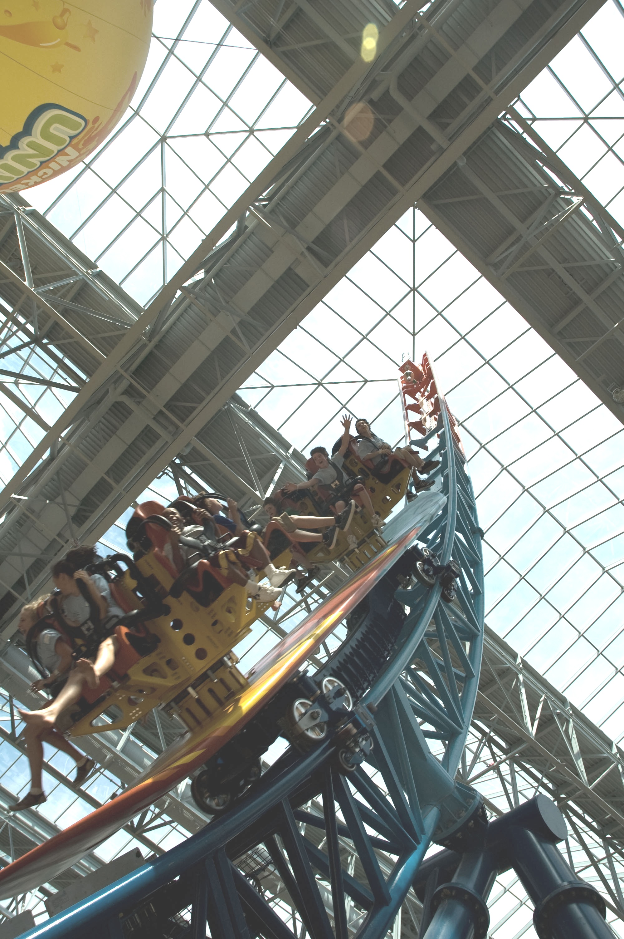 Avatar Airbender at MOA.